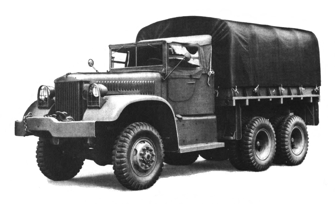 Diamond T Model 968A 4-ton 6x6 Cargo Truck